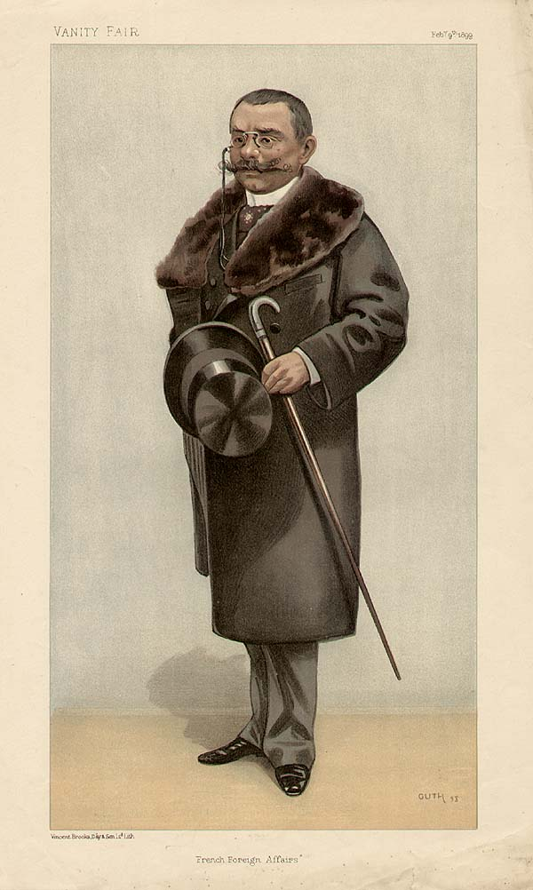 Caricature of Théophile Delcassé. Caption read "French Foreign Affairs". Accompanying biographical note in Vanity Fair read "He is now something like the biggest man in France. He did not achieve Fashoda, but he dealt with that little matter so diplomatically that he retains his Portfolio in M. Dupuy's Ministry. For he is a very clever fellow, even among Frenchmen; who can look very firm even after he has decided to yield the inevitable. He is practically the inventor of the French Colonial Department.... With all his pugnacity, or because of it, he likes music. He is an habitué of the opera".